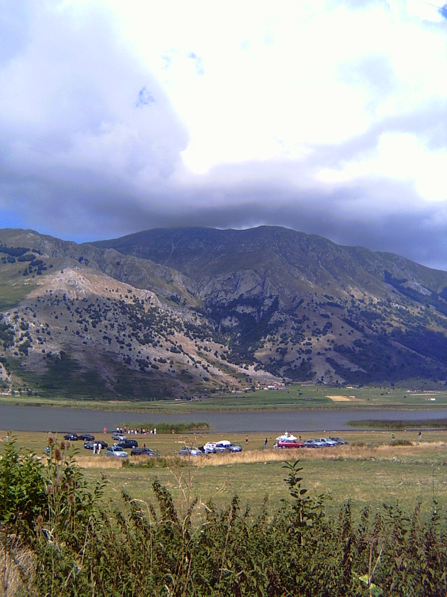 Matese lake, Caserta province, Italy